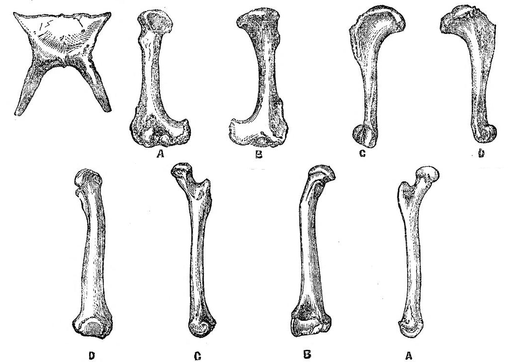 Fossil bones of the Rodrigues Giant Day Gecko.